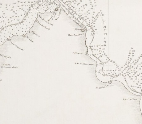 "‘Trigonometrical Survey of the Arabian or Southern Side of the Persian Gulf By Lieutenants J.M. Guy & G.B. Brucks H.C. Marine. 1824. Drawn by Lieutt. M. Houghton Draughtsman H.C.M. Engraved by John Bateman. Sheet 3rd’" Some of the settlements shown on Qatar's coast, from bottom to top, left to right. In parenthesis is their modern equivalent which I deduced based on their location and pronunciation: Rubeydje (Rubayqa), Ras Asheeridge (Ras Ushayriq), Zabara (Zubarah), Fraeyah (Freiha), Core Hussan (Khor Hassan - Al Khuwayr), Yosfee (Al Yousifiya), Yumale (Al Jemail), Buderhoof (Abu Dhalouf), Roees (Ar Ru'ays, Al Ruwais), Ras Reccan (Ras Rakan), Affeerat (Fuwayrit, Fuwairat), Ras el Maroona (Al Maroona), El Owhalie (Al Huwailah), Ras Luffan (Ras Laffan), Core Shedenth (Khor Shaqiq - Al Khor), Ras Mutbuch (Ras Matbakh), Dooat el Wosseil (Lusail), El Biddah (Al Bidda - Doha), Ras Bo Aboot (Ras Abu Aboud), Jibbil el Wokrah (Al Wakrah), Ras Amulhool (Umm Al Houl), Core Alladeid (Khawr Al Udeid, Khor Al Udayd, etc.) The islands off of Doha are: Jezeerat el Alli (Al Aaliya Island, Jazirat Aliyah), Jez'el Sufflie (Safliya Island, Jazirat Safliya)